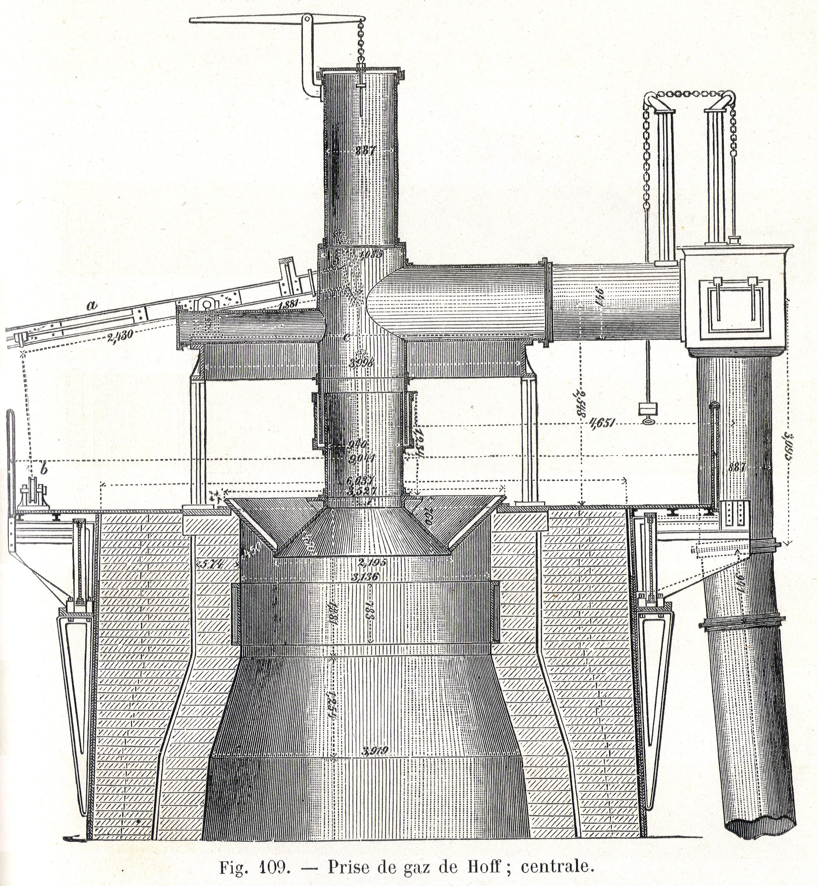 Gases picking up system at the top of a blast furnace. Image scanned in : Manuel de la métallurgie du Fer, Tome 1, par Adolf Ledebur, édition française traduite par Barbary de Langlade revu et annoté par F.Valton, publié par Librairie polytechnique Baudry et Cie, 1895, page 447.